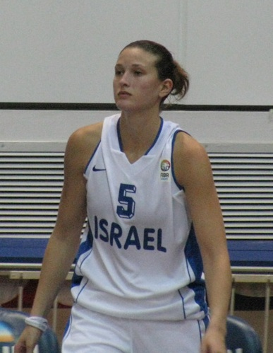 meirav dori